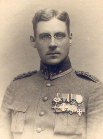 Photograph of the Finnish general Heikki Kekoni (1893–1953).